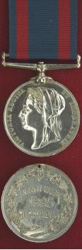 North West Canada Medal